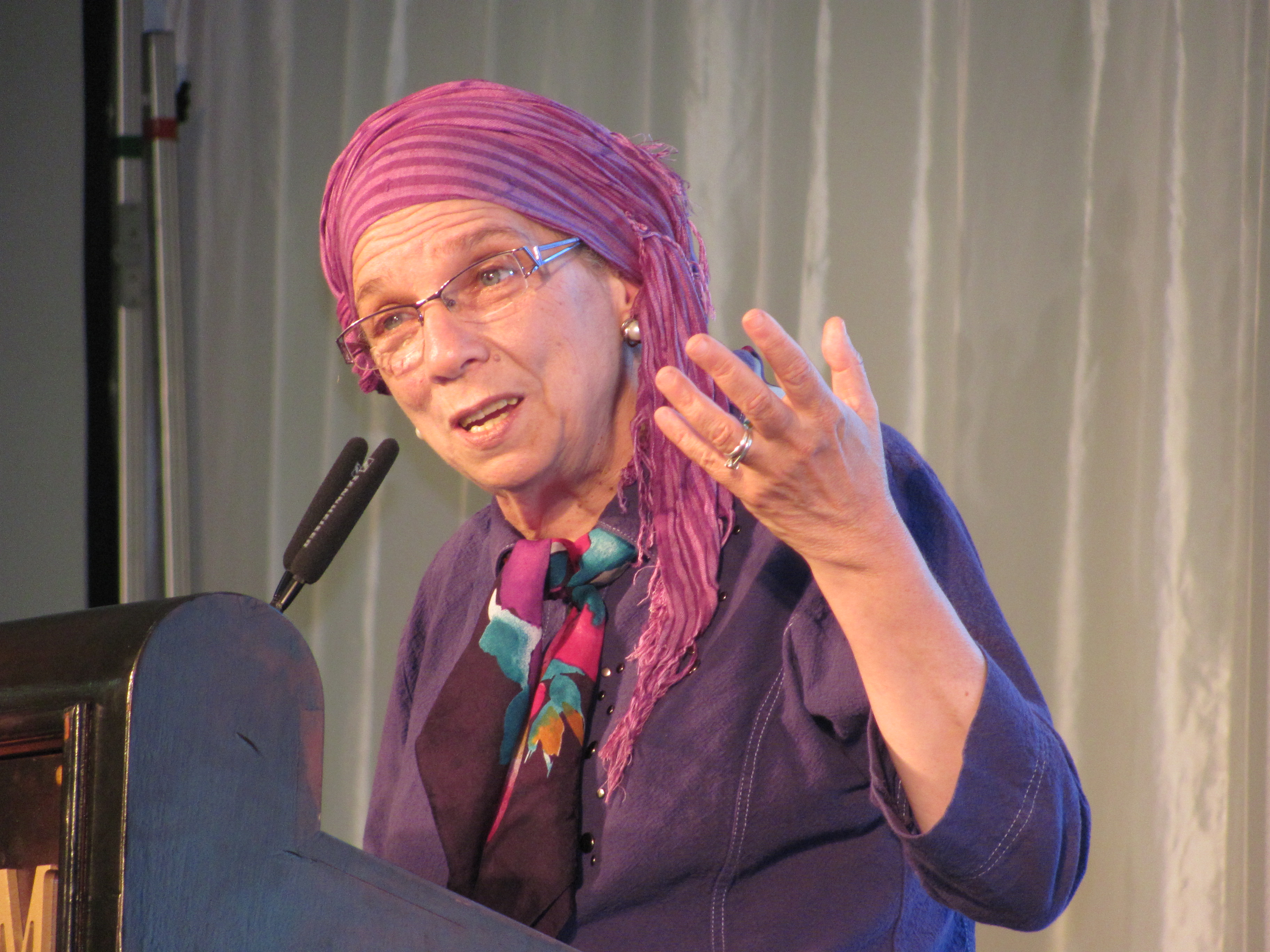 Rebbetzin Tziporah Heller speaks to women at the Dirshu Siyum HaShas event at the Jerusalem International Convention Center (Binyanei HaUmah), July 31, 2012.